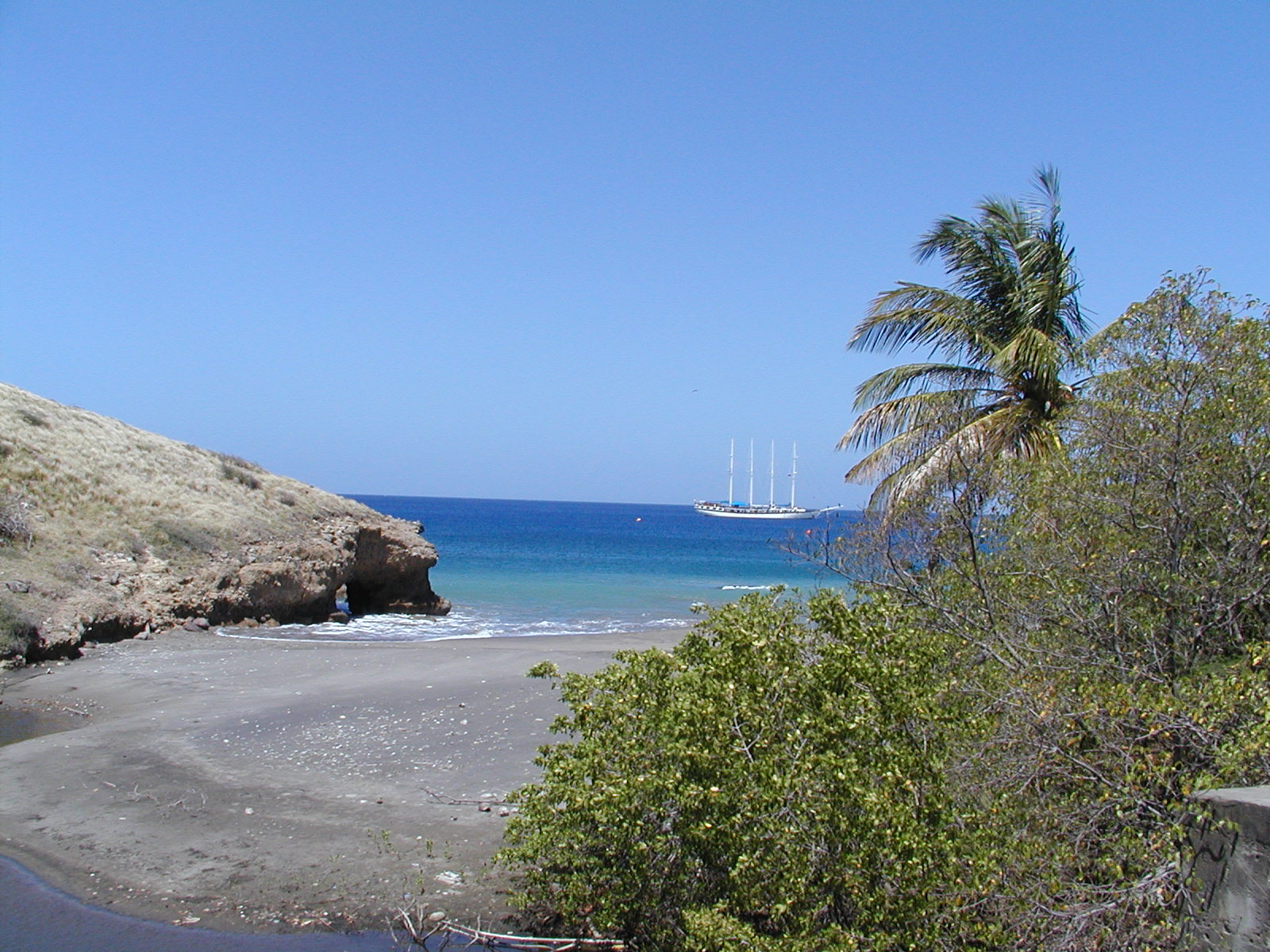 The Windjammer Polynesia Cruise in Little Bay, Montserrat